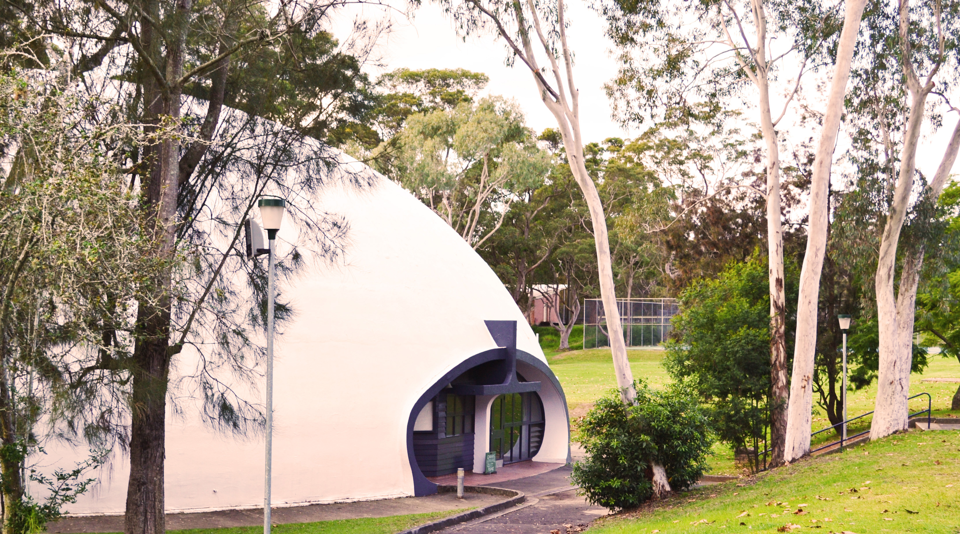 The Margaret Preston Hall, or Bini Shell, as pictured at Ku-ring-gai High School in 2019.